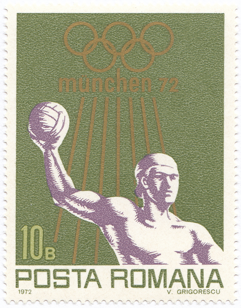 10 bani stamp issued by Poșta Română for the 1972 Summer Olympics in Munich, representing the waterpolo event.